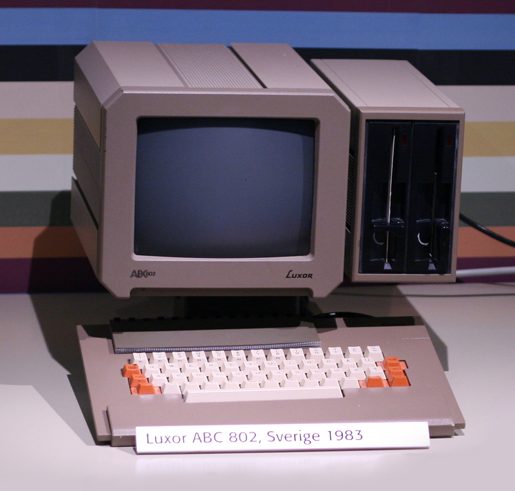 Luxor ABC 802 personal computer, Sweden, 1983. On exhibition at ITceum, Linköping, Sweden.